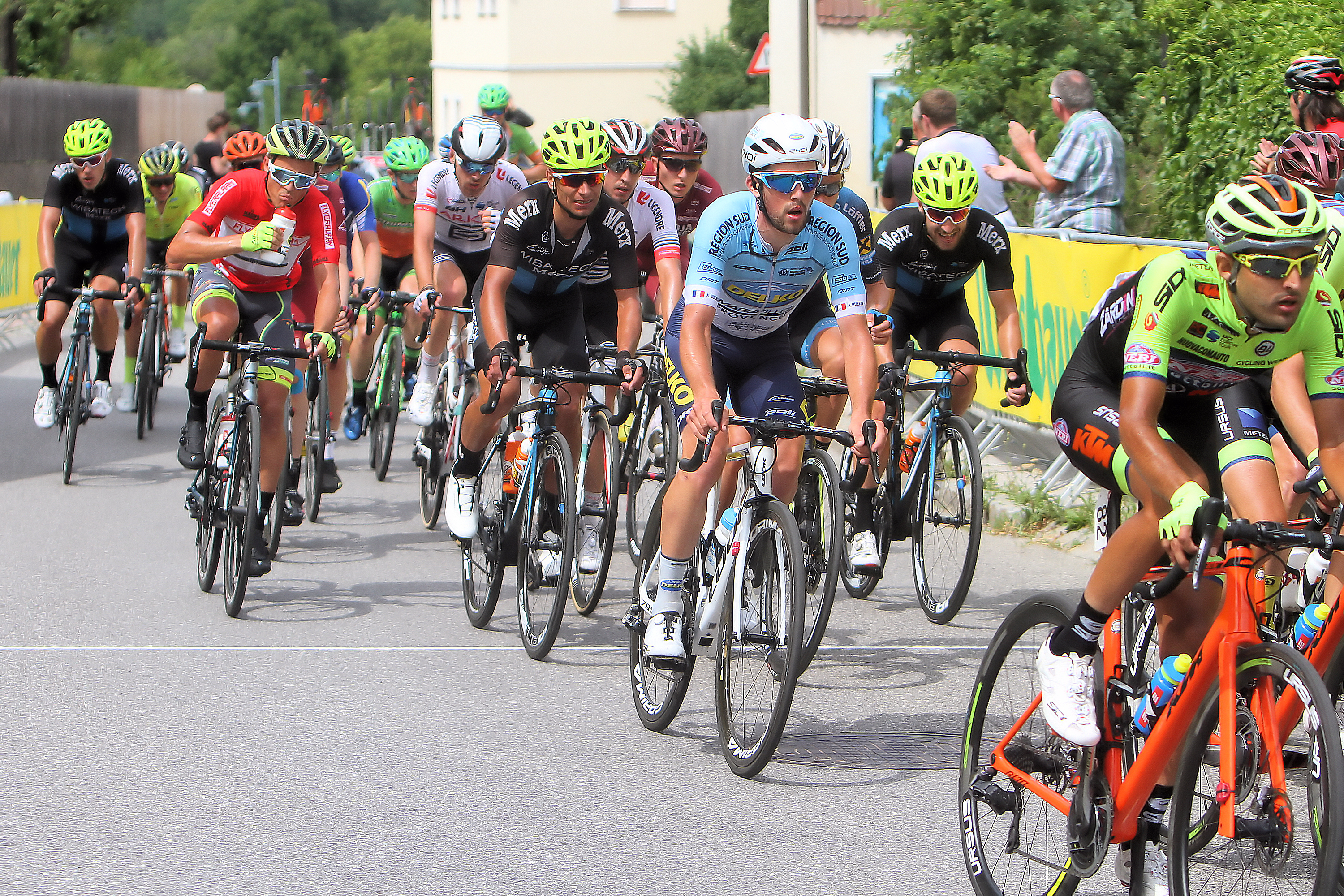 2019 Tour of Austria 2nd stage from Zwettl to Wiener Neustadt at 2019-07-08. – The photo shows the main field with the leader Emīls Liepiņš in Dreistetten.